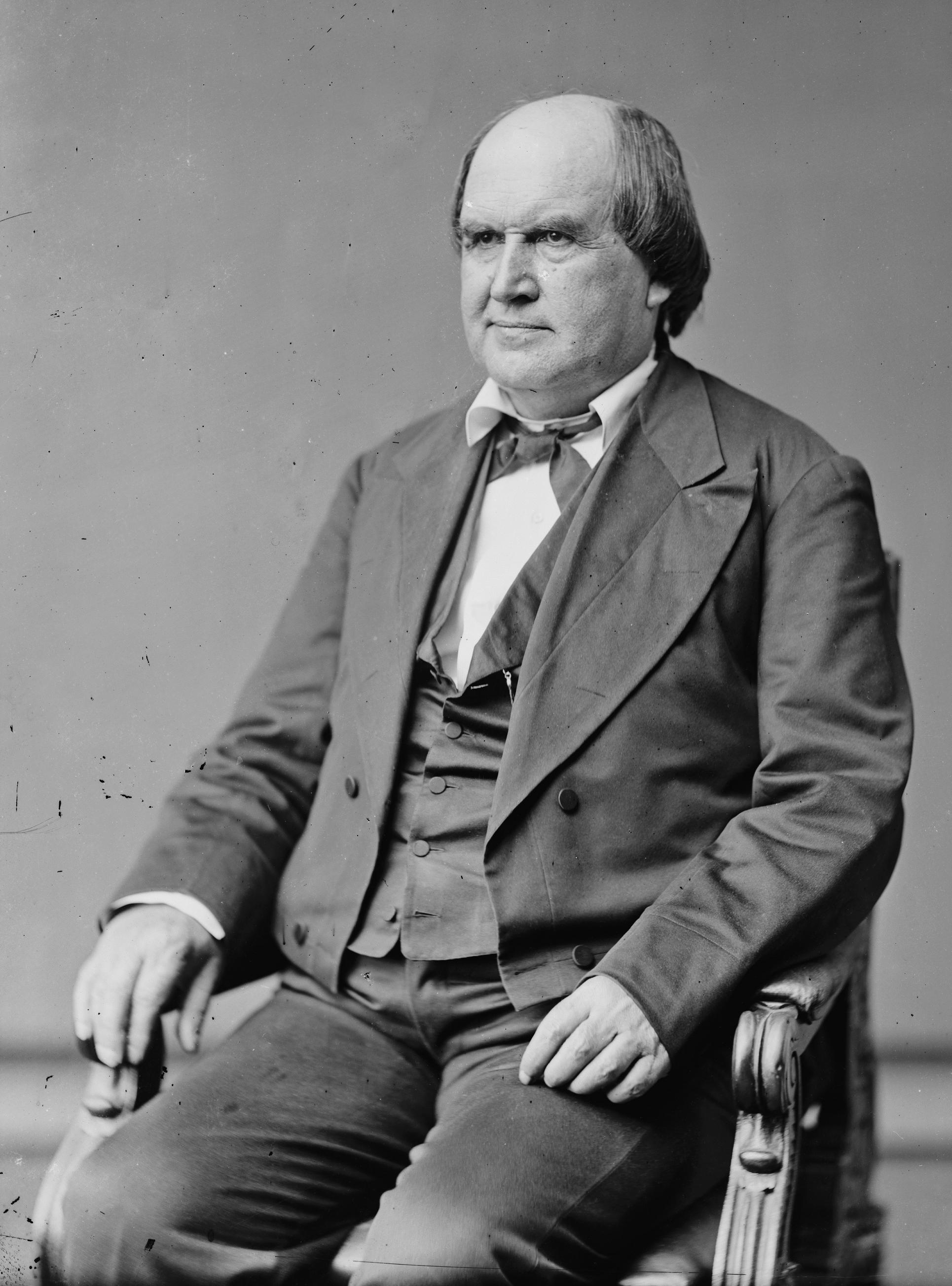 Thomas C. McCreery. Library of Congress description: "McCreery, Hon. Thomas Clay of Ky".